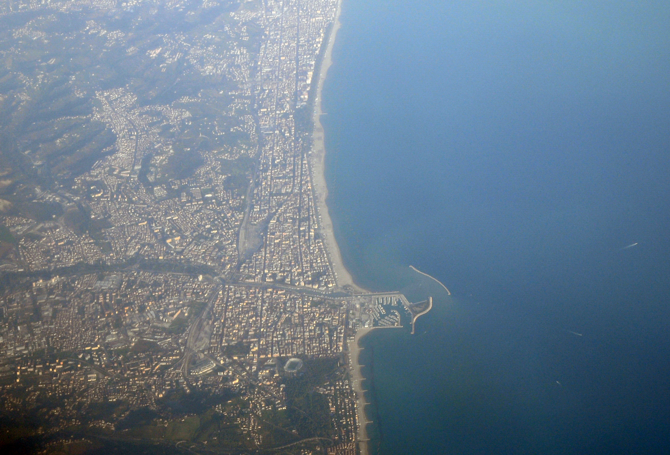 The city of Pescara, Italy, seen from airplane.